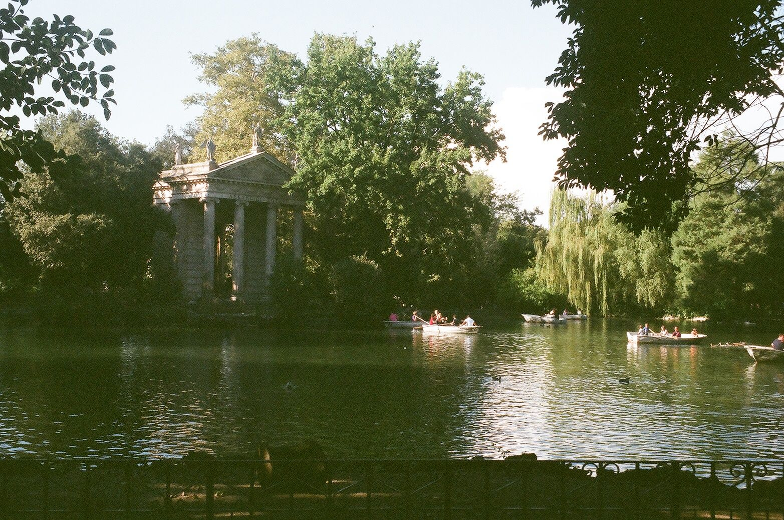 Temple of Aesculapius in Villa Borghese